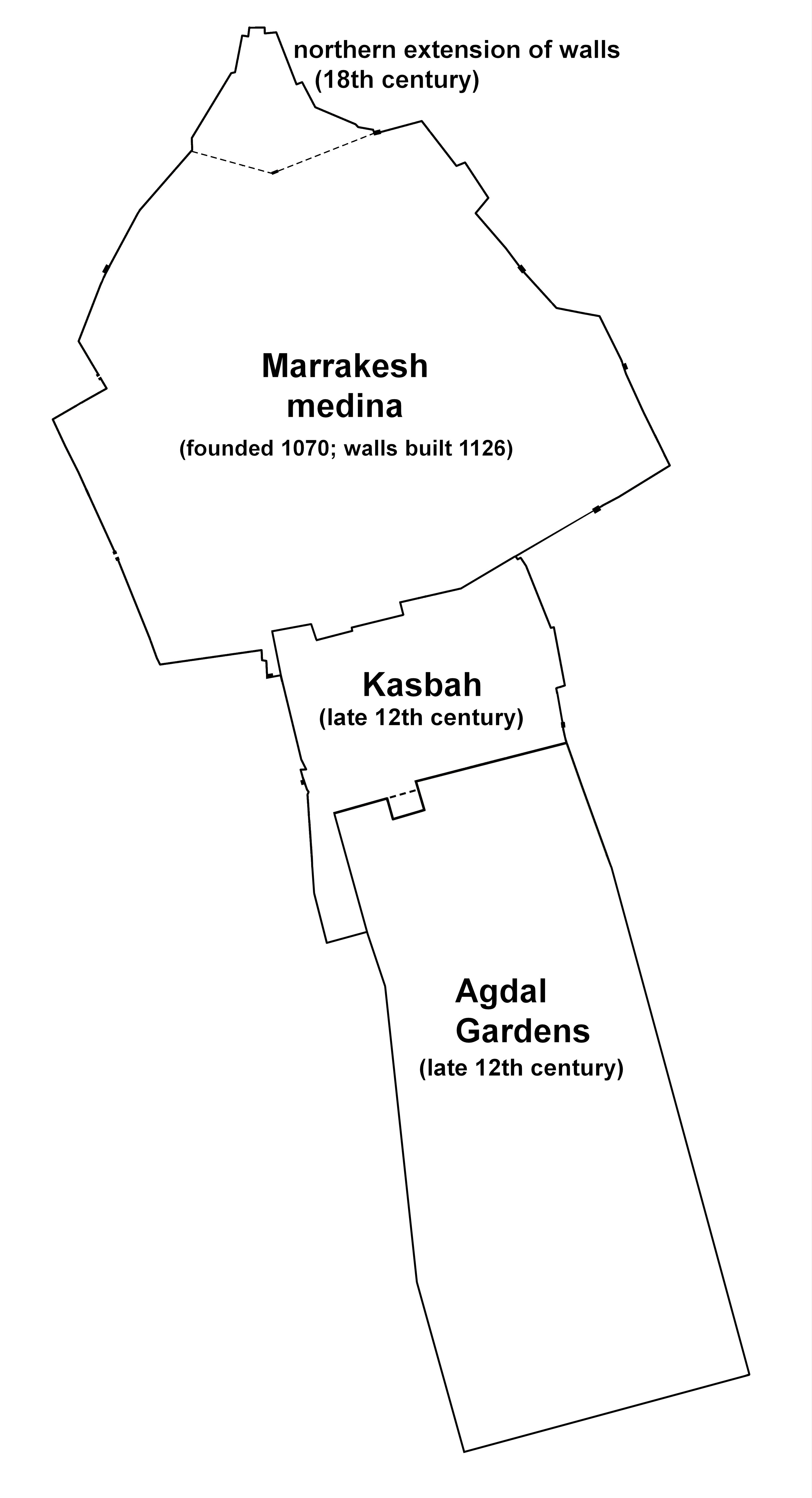 Map of walls, with main parts of the walled city labelled and dated.